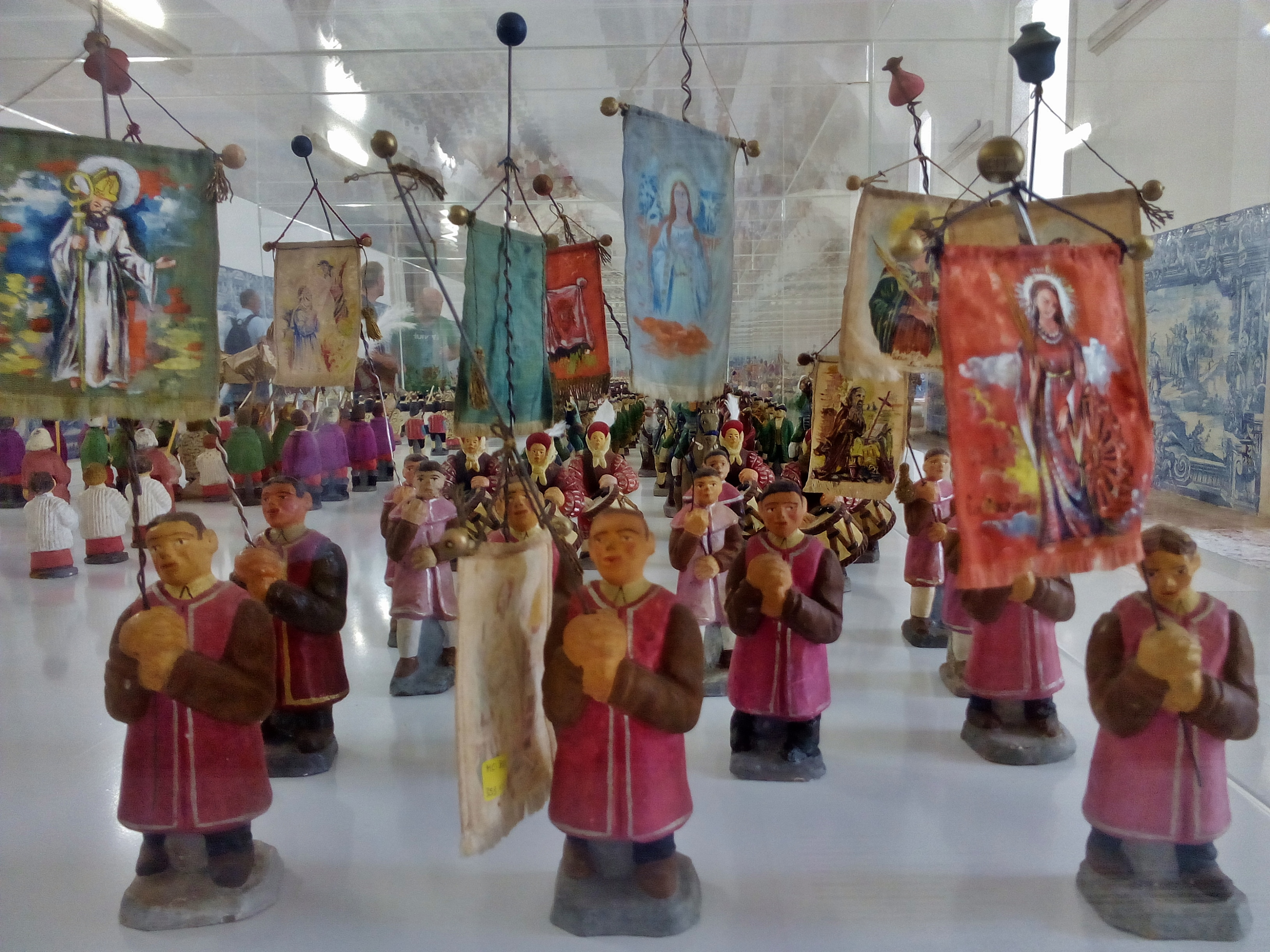 Depiction of the House of the Twenty-Four in the Corpus Christi procession, in Lisbon, in the first half of the 18th-century. Part of a large collection of figurines by Diamantino Tojal. Museum of Lisbon.